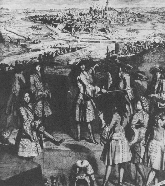 King Louis XIV at the Siege of Mons 1691